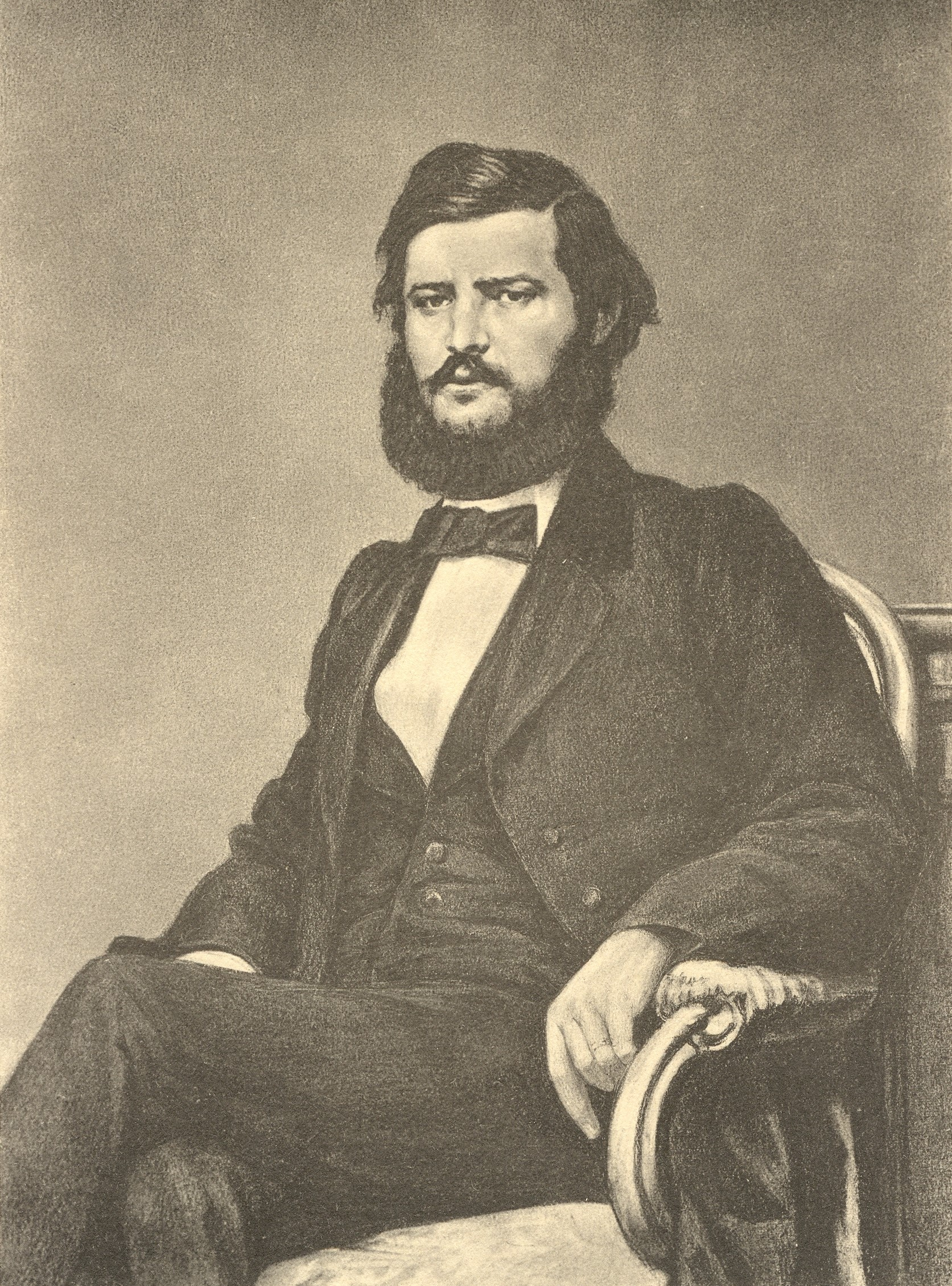 Portrait of Jovan Andrejević (1833-1864), Serbian doctor, journalist and one of the founders of the Serbian National Theater in Novi Sad. Srpski (latinica): Portret Jovana Andrejevića (1833-1864), lekara, novinara i jednog od osnivača Srpskog narodnog pozorišta u Novom Sadu.